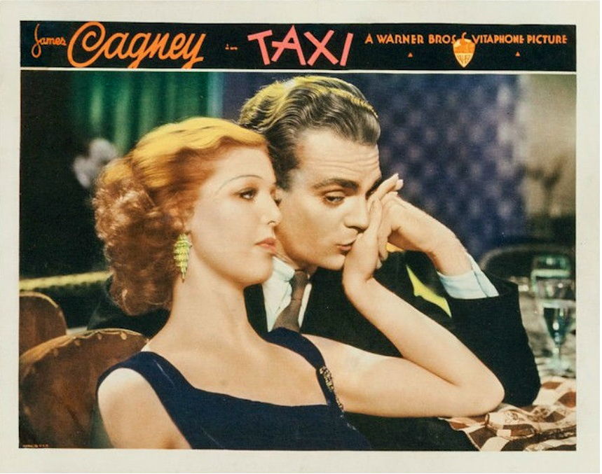 Lobby card for the American pre-Code film Taxi! (1932) with James Cagney and Loretta Young.